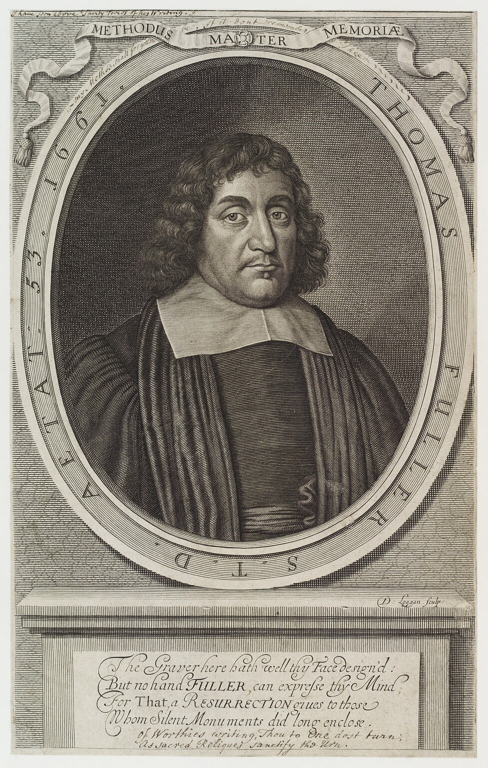 Portrait of Thomas Fuller (1608-1661)